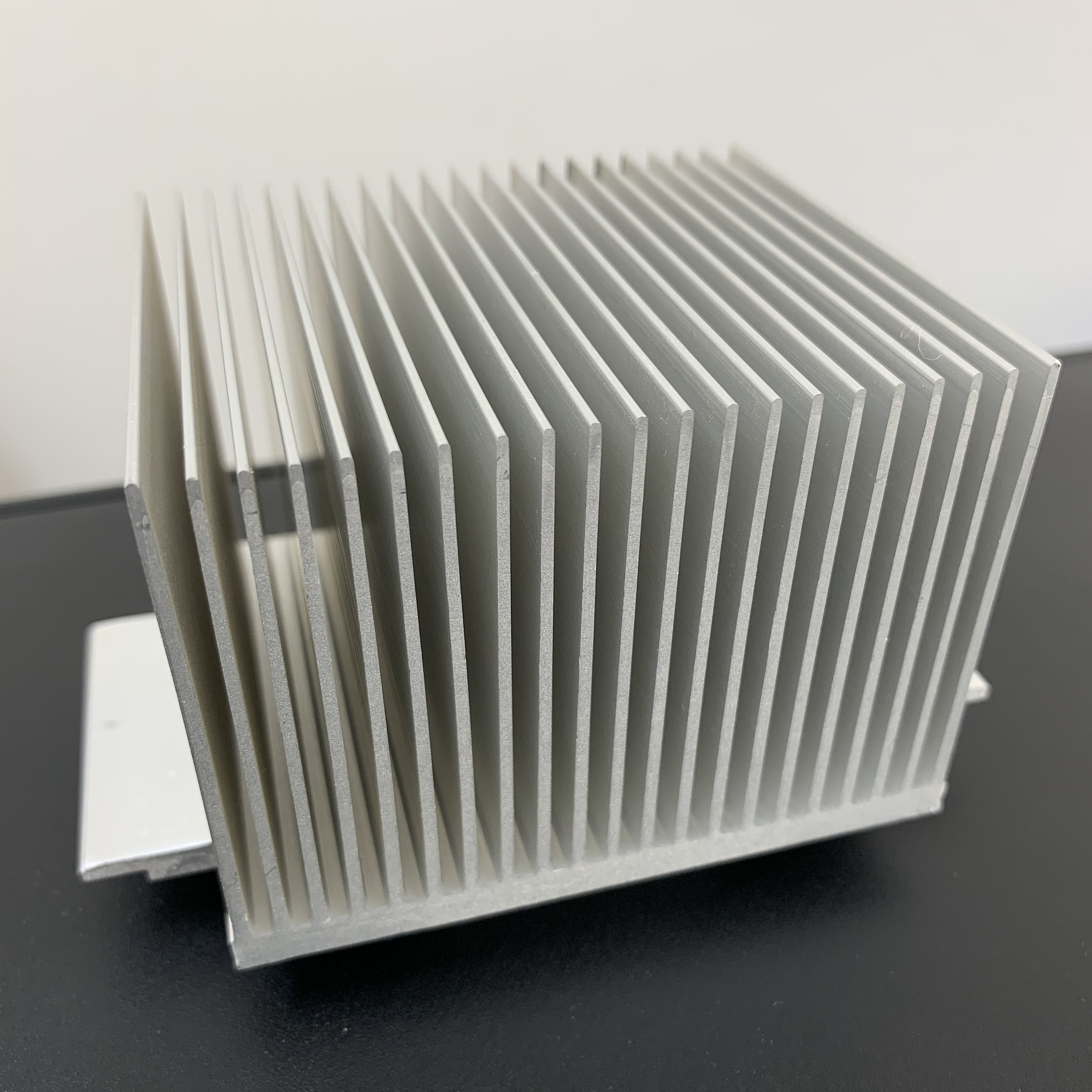 Heat sink type-Straight